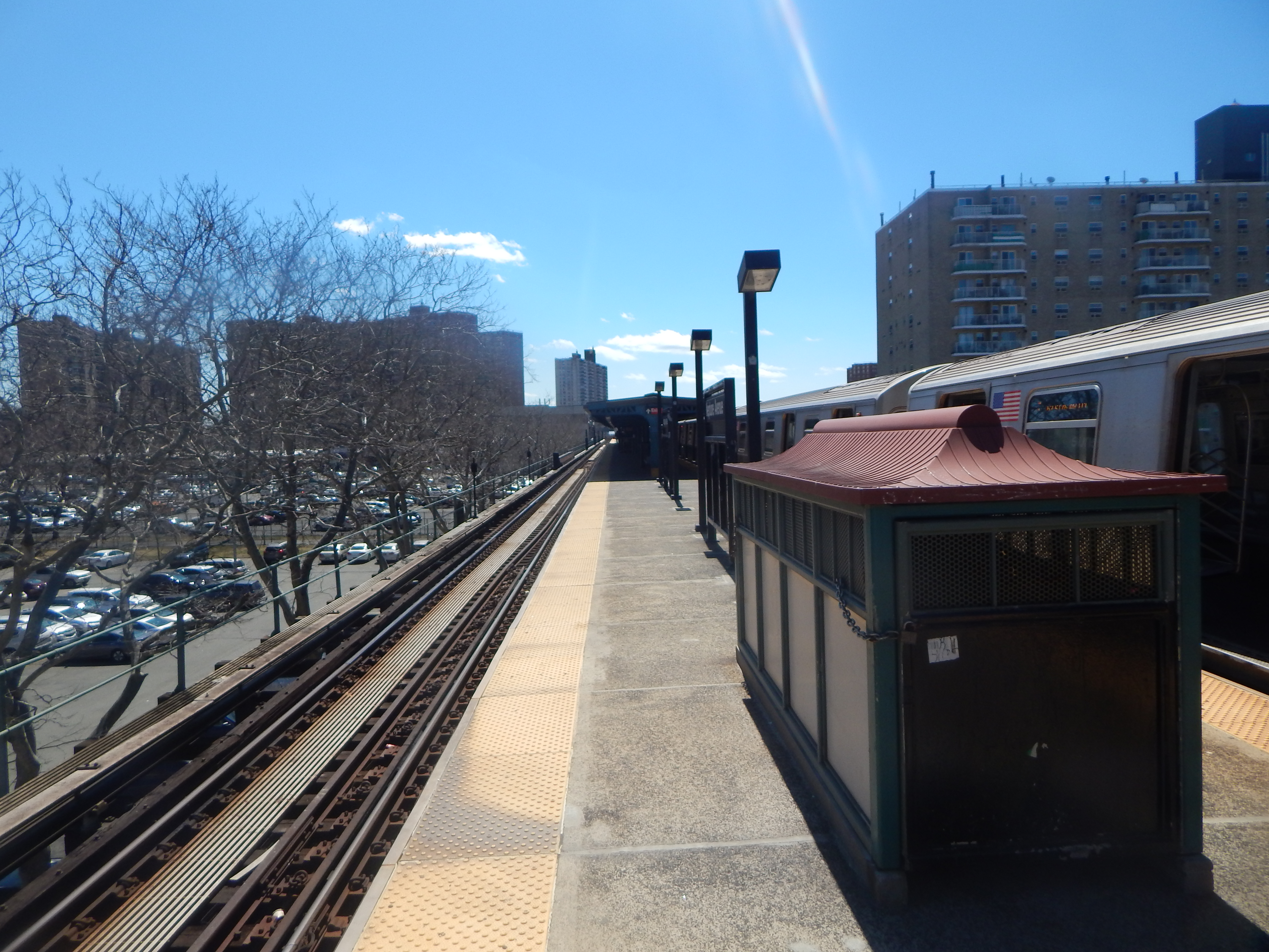 Coney Island, Brooklyn, New York